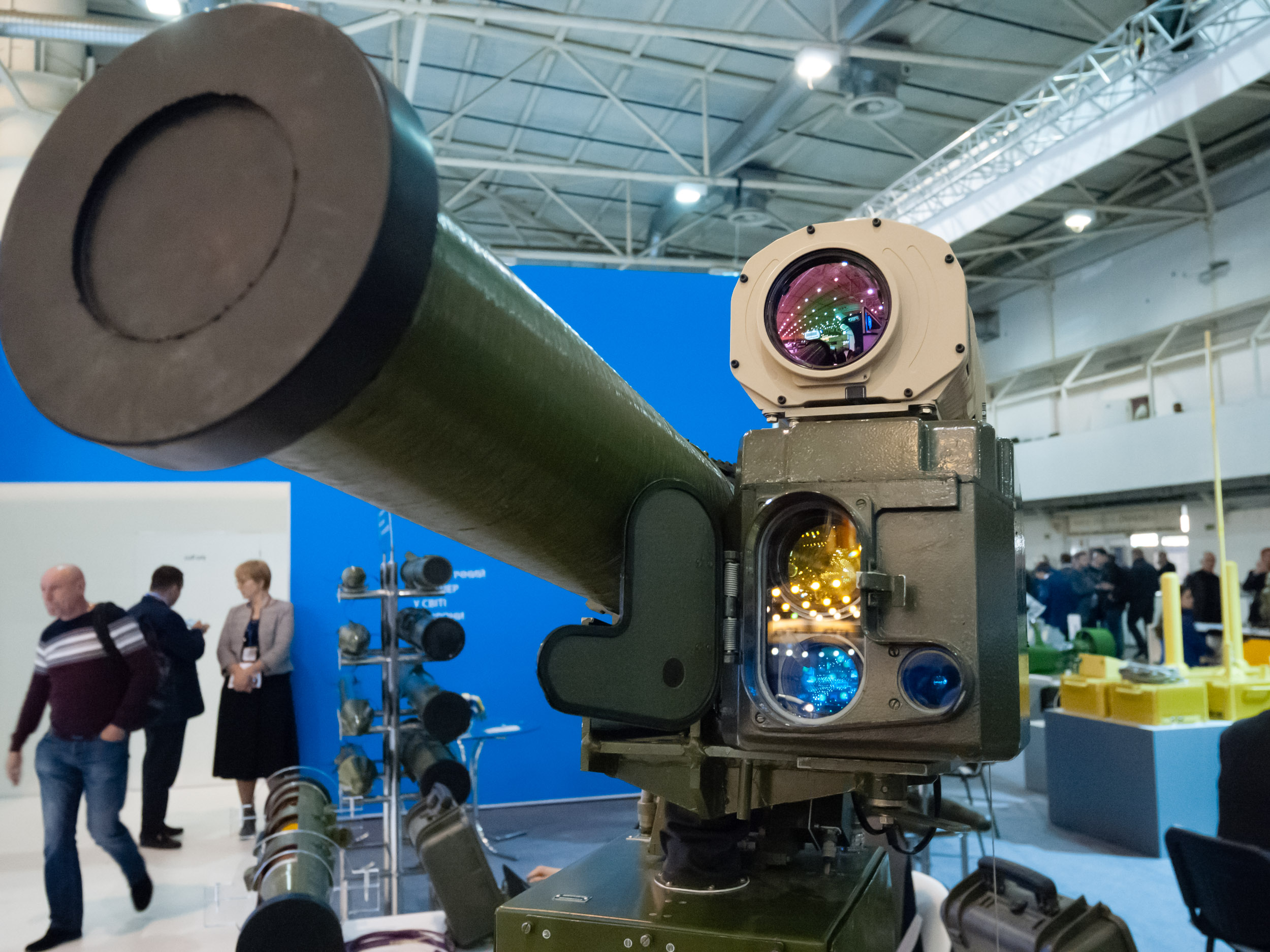 Stugna-P ATGM and Aselsan Eye-Lr S thermal imaging camera, 'Zbroya ta Bezpeka' military fair, Kyiv, Ukraine, 2018